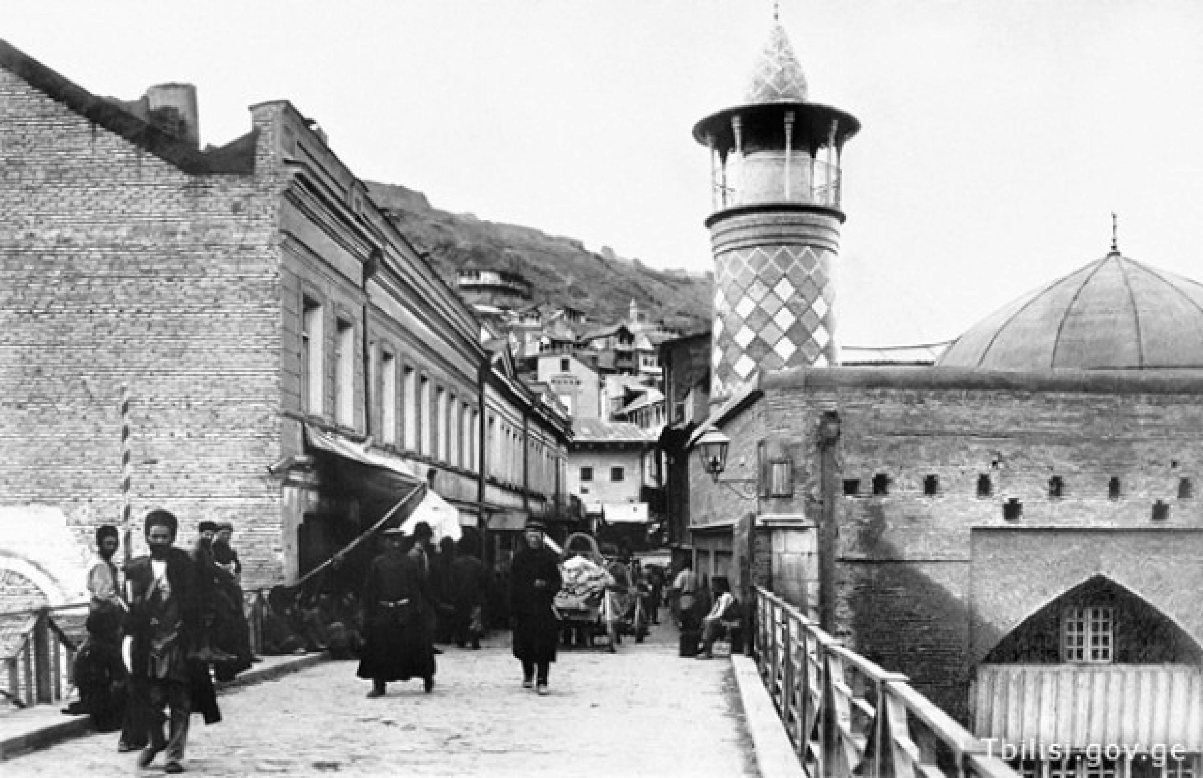 Russian Empire postcard, Tatar (azerbaijanian) mosque and bridge on Maidan square. Tiflis